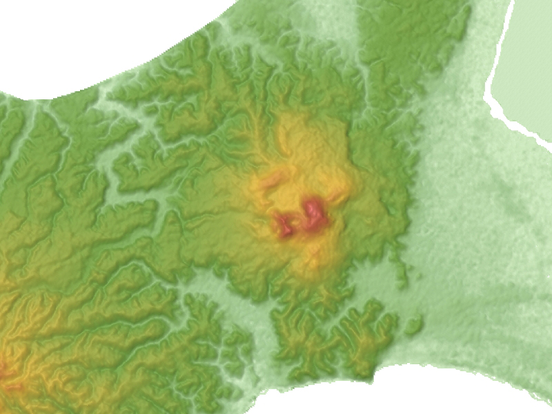 Kampu Volcano is a volcano in Akita Prefecture, Honshu, Japan.